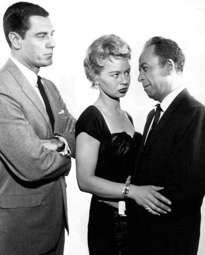 Photo of Craig Stevens as Peter Gunn (left) with guest star Lewis Charles from the television program Peter Gunn.